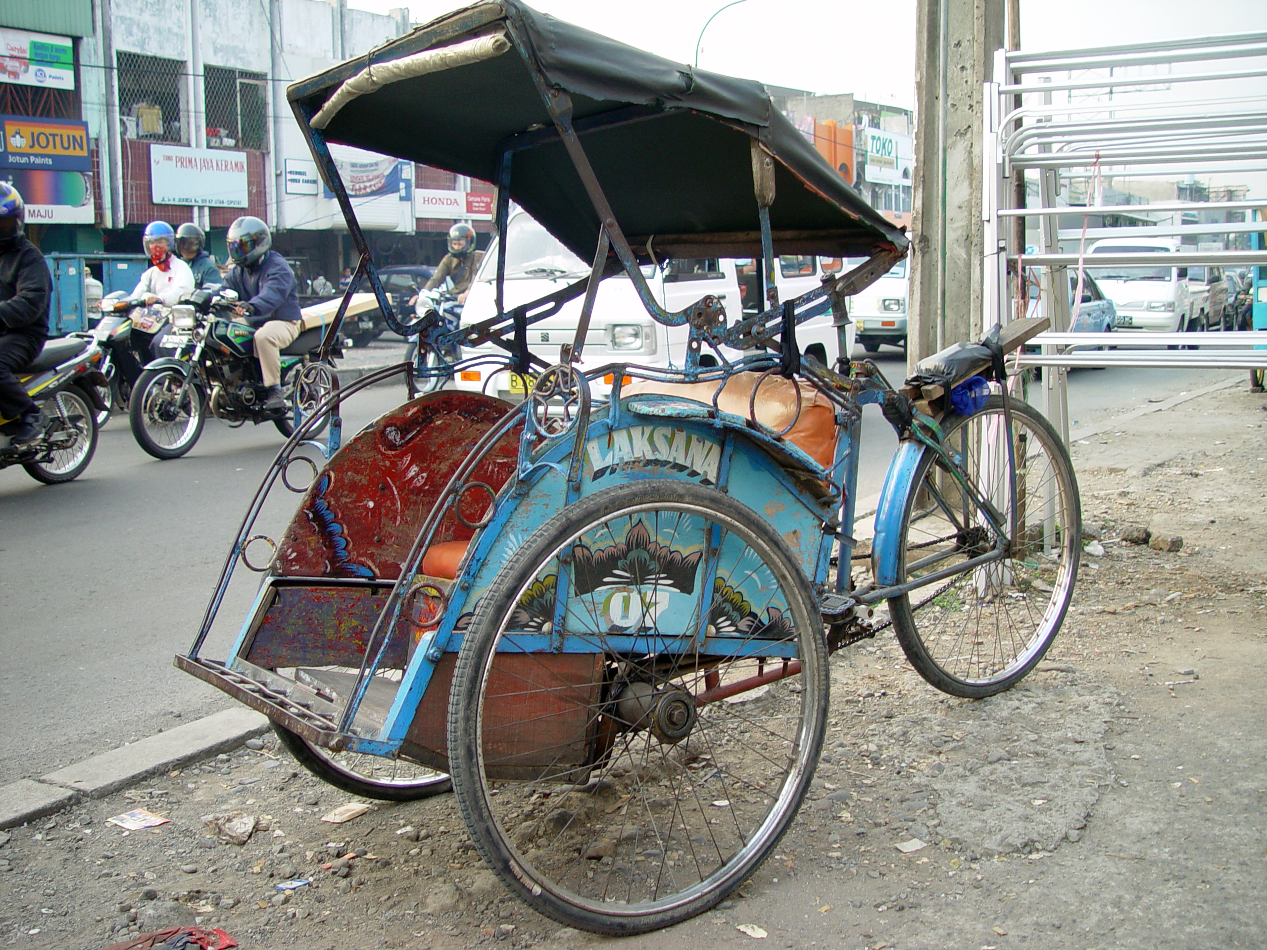 Becak, Ciputat Indonesia.